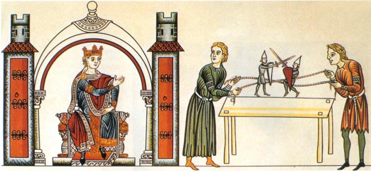 Fighting Knight-Puppets, from Hortus Deliciarum, Herrad of Landsberg Date: c.1167 - c.1185; Hohenburg Abbey, France Style: Romanesque Genre: Miniature